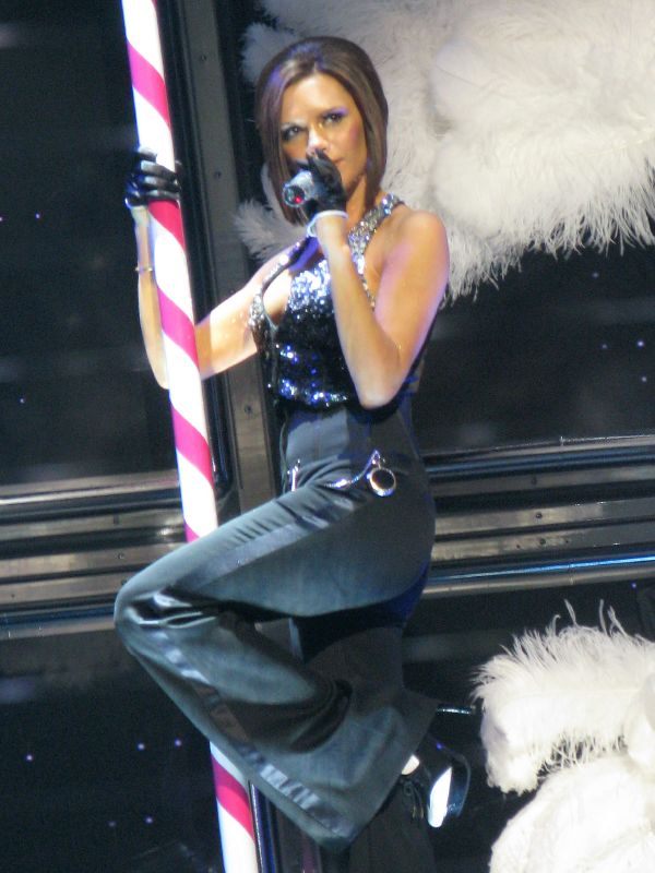 Victoria Beckham singing on pole